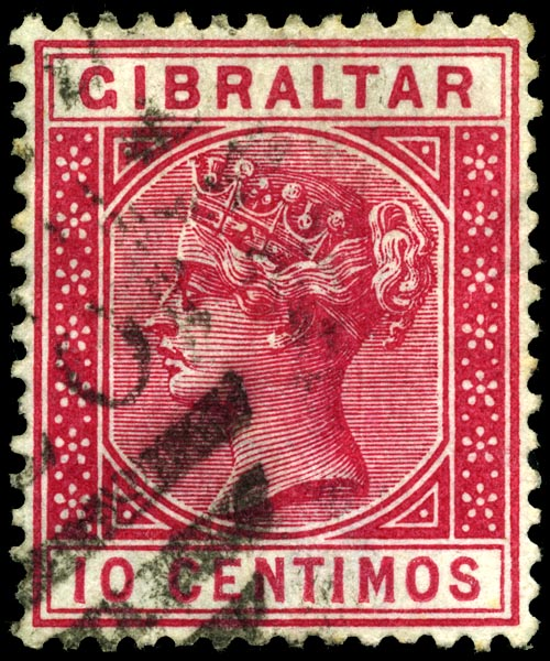 Gibraltar 10c stamp of 1889